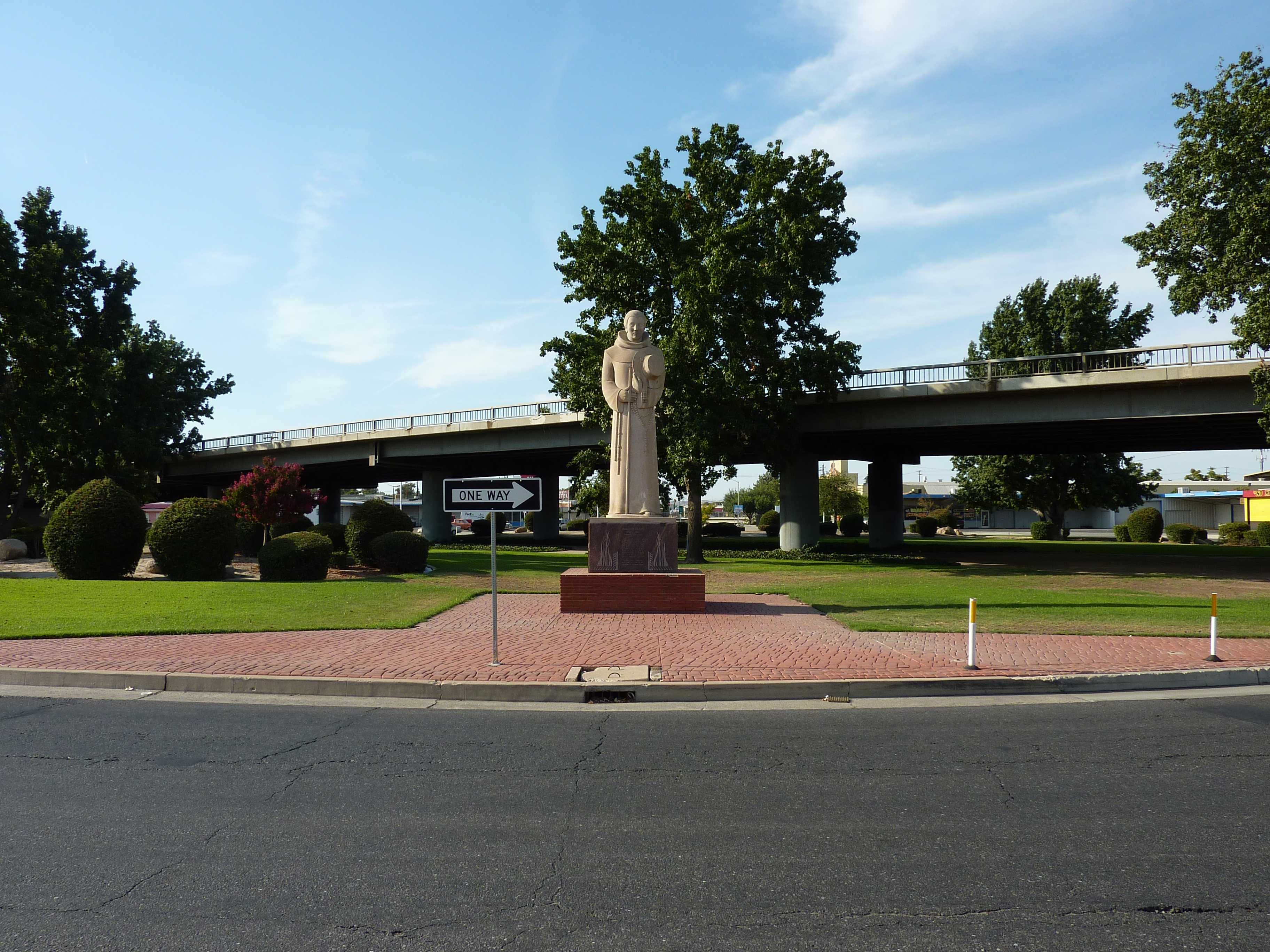 Garces Memorial Circle — with a statue honoring explorer Francisco Garcés, located in Bakersfield, California. He was a Spanish explorer, active in Colonial California and Southwestern North America for the colonial Viceroyalty of New Spain. Francisco Garcés discovered the first route to the southern San Joaquin Valley (site of Bakersfield) through the Old Tejon Pass, over the Tehachapi Mountains, from the Mojave Desert and Spanish colonial Mexico.